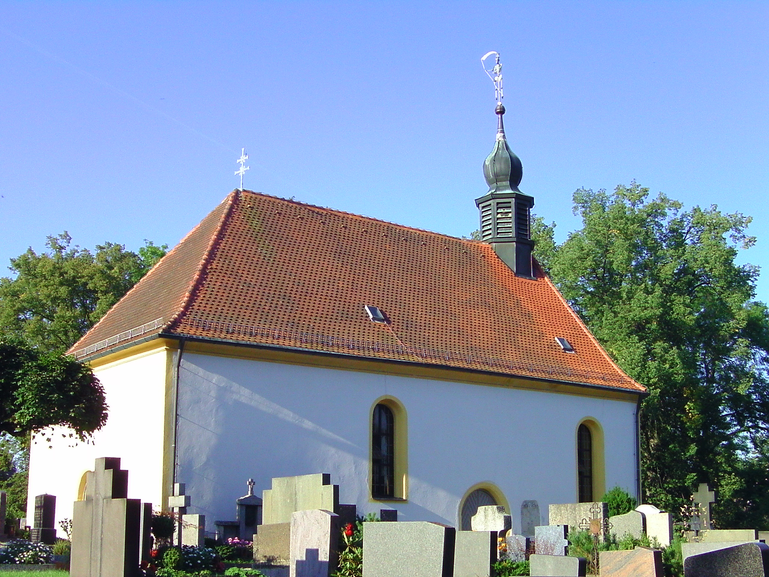 Cemetery chapel in Tirschenreuth